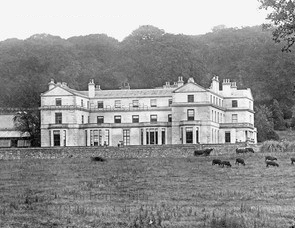 Creedy Park, Sandford, Devon, in 1904, south front. This house burnt down in 1915 and was rebuilt in a different style 1916-21